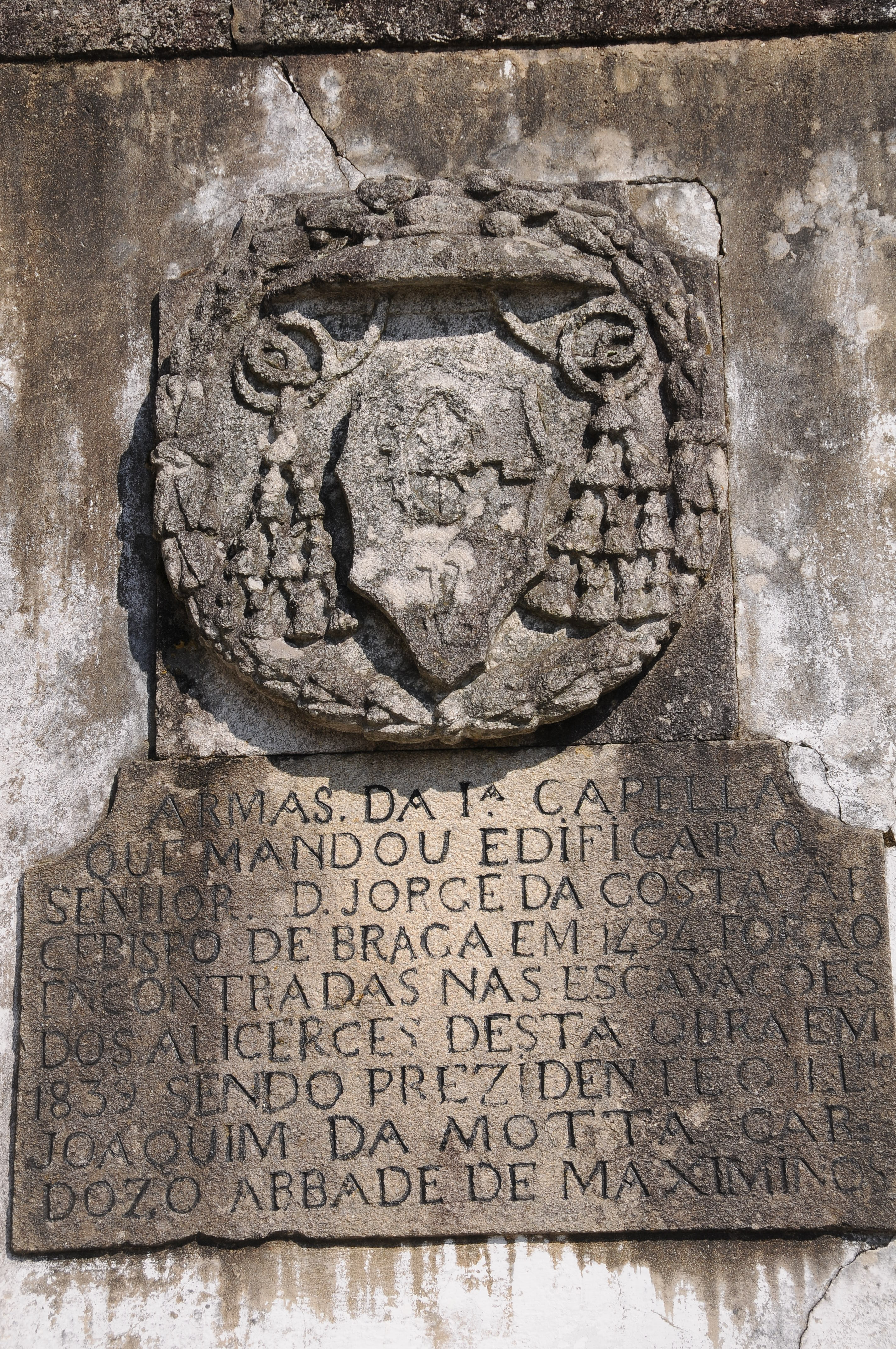 Plaque in Bom Jesus Stairs